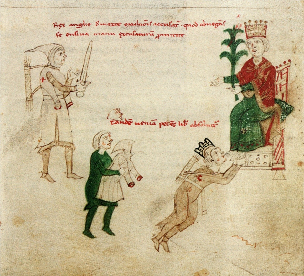 Holy Roman Emperor Henry VI grants a pardon to Richard I of England (Richard Lionheart). Petrus de Ebulo, Liber ad honorem Augusti sive de rebus Siculis, fol 129, recto